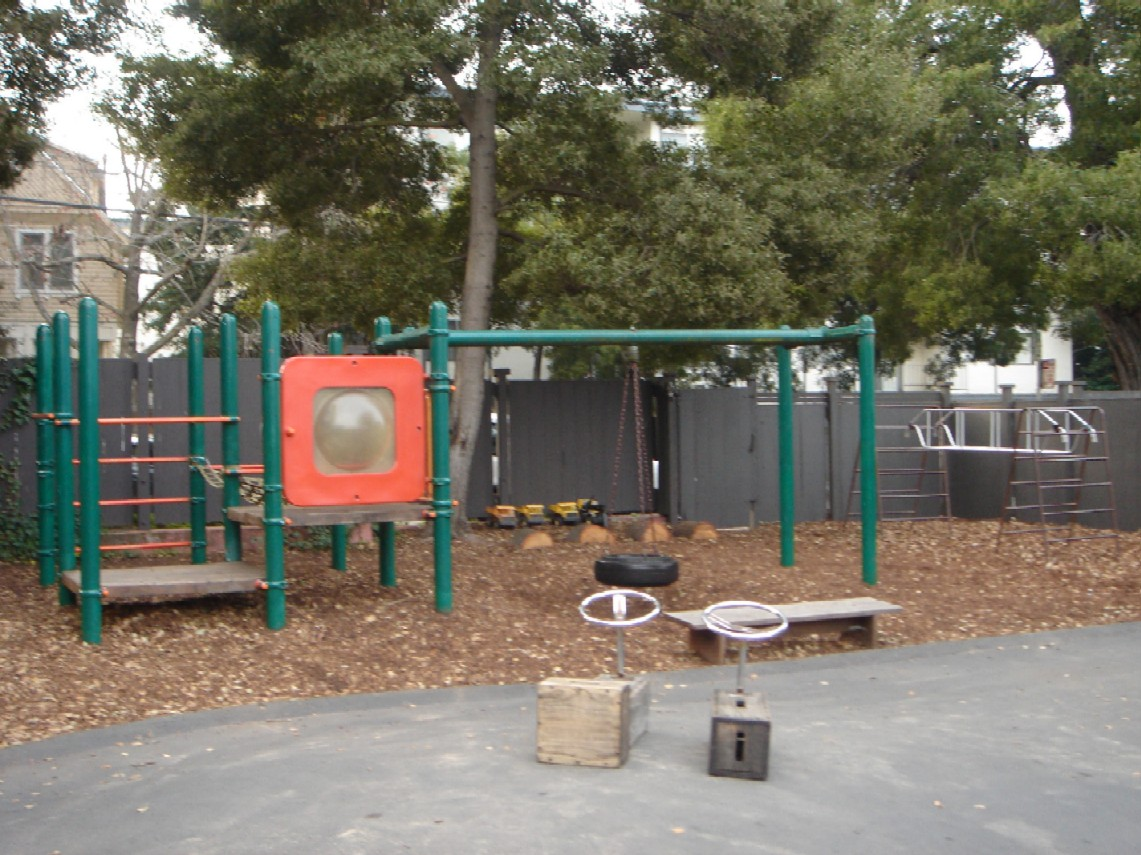 Photo taken by person uploading it.